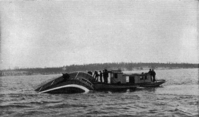 Sidewheeler North Pacific sinking in the Strait of Juan de Fuca after striking a rock. The insurance launch Rothschild No. 2 is alongside.